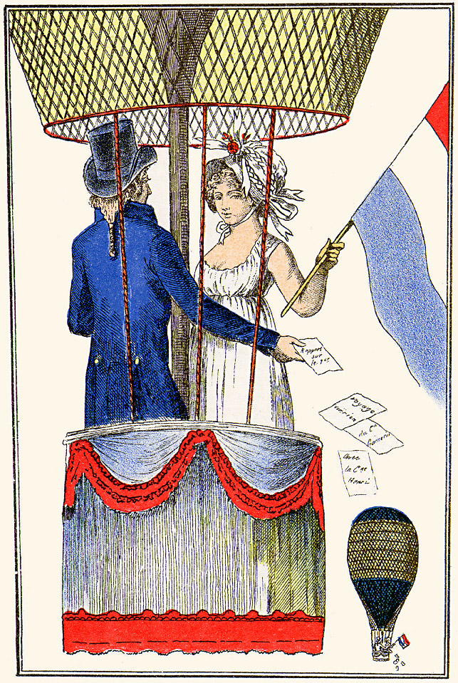 An illustration of ballooning, from the Journal des Dames et des Modes, 1797-1798. The writing on the falling pieces of paper reads: "Rapport sur le premier voyage aërien du Citoyen Garnerin avec la Citoyenne Henri" (Andre-Jacques Garnerin was one of the most famous balloonists of the time). According to French Wikipedia, the original caption to this illustration was "Ascension en Montgolfière par le physicien Garnerin et la Citoyenne Henri". The lady is wearing a classic late 1790's "Grecian" Directoire gown -- which doesn't seem like very warm attire for a balloon journey! Note the variant version of the French tricolor. For another early female balloonist, see Image:Sophieblanchard-milan.jpg